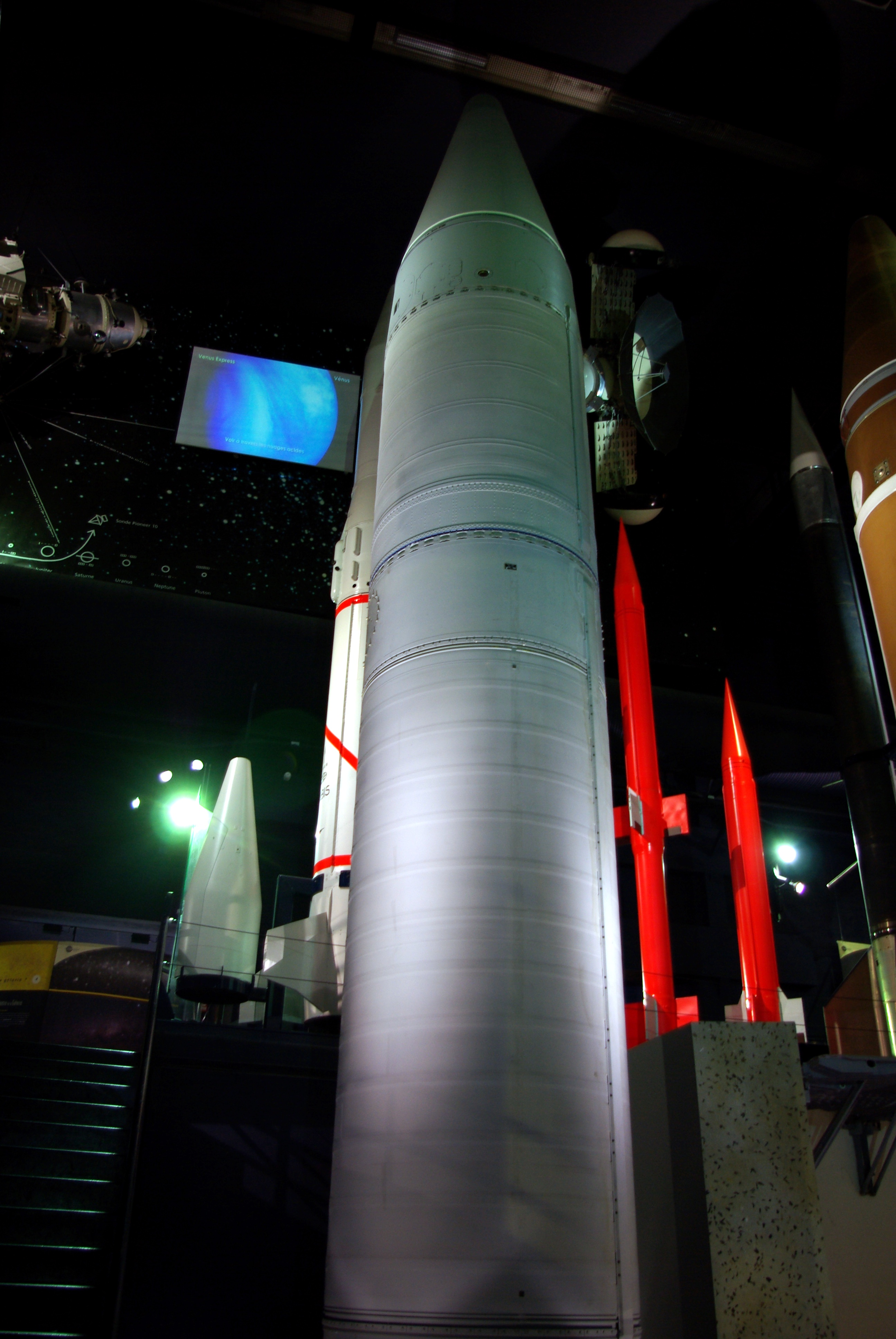 French IRBM S2 exhibited at the Air & Space museum at Le Bourget, France.